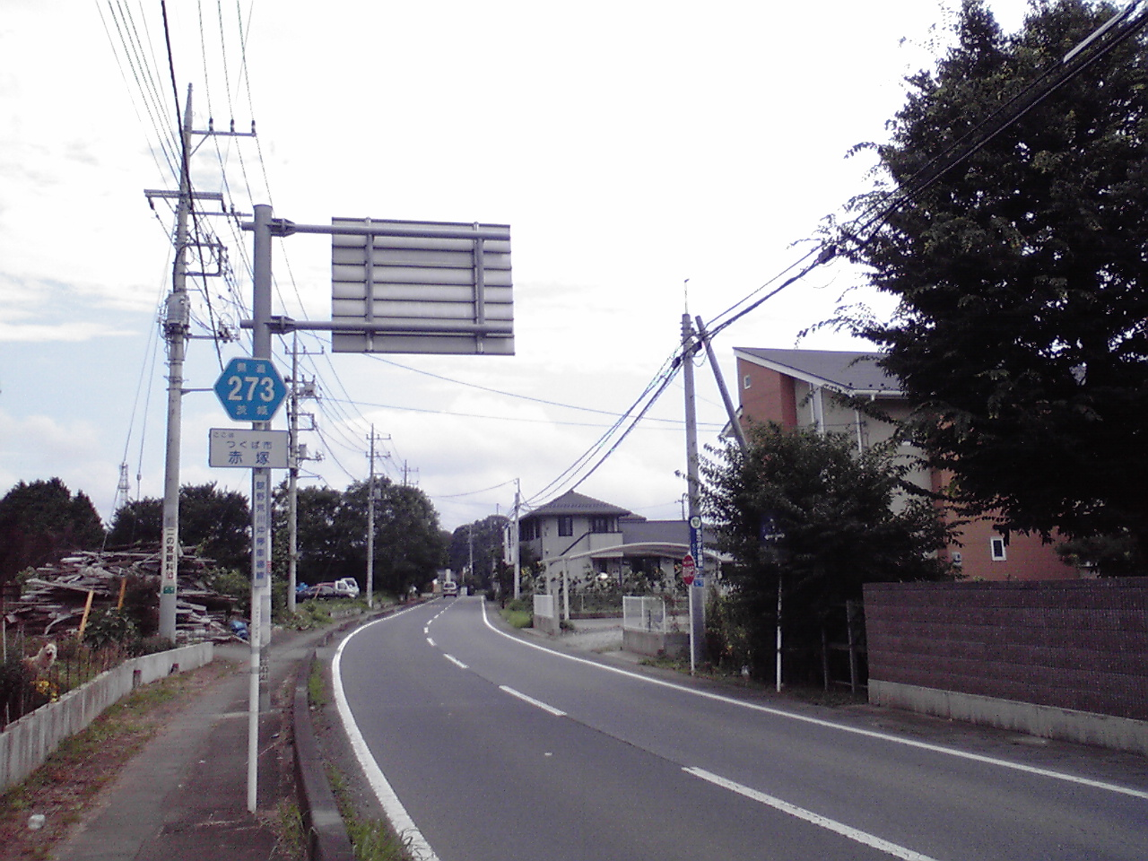 This is a scene of Ibaraki pref. road Tateno Arkawaoki station Line at Akatsuka, Tsukuba, Ibaraki, Japan.